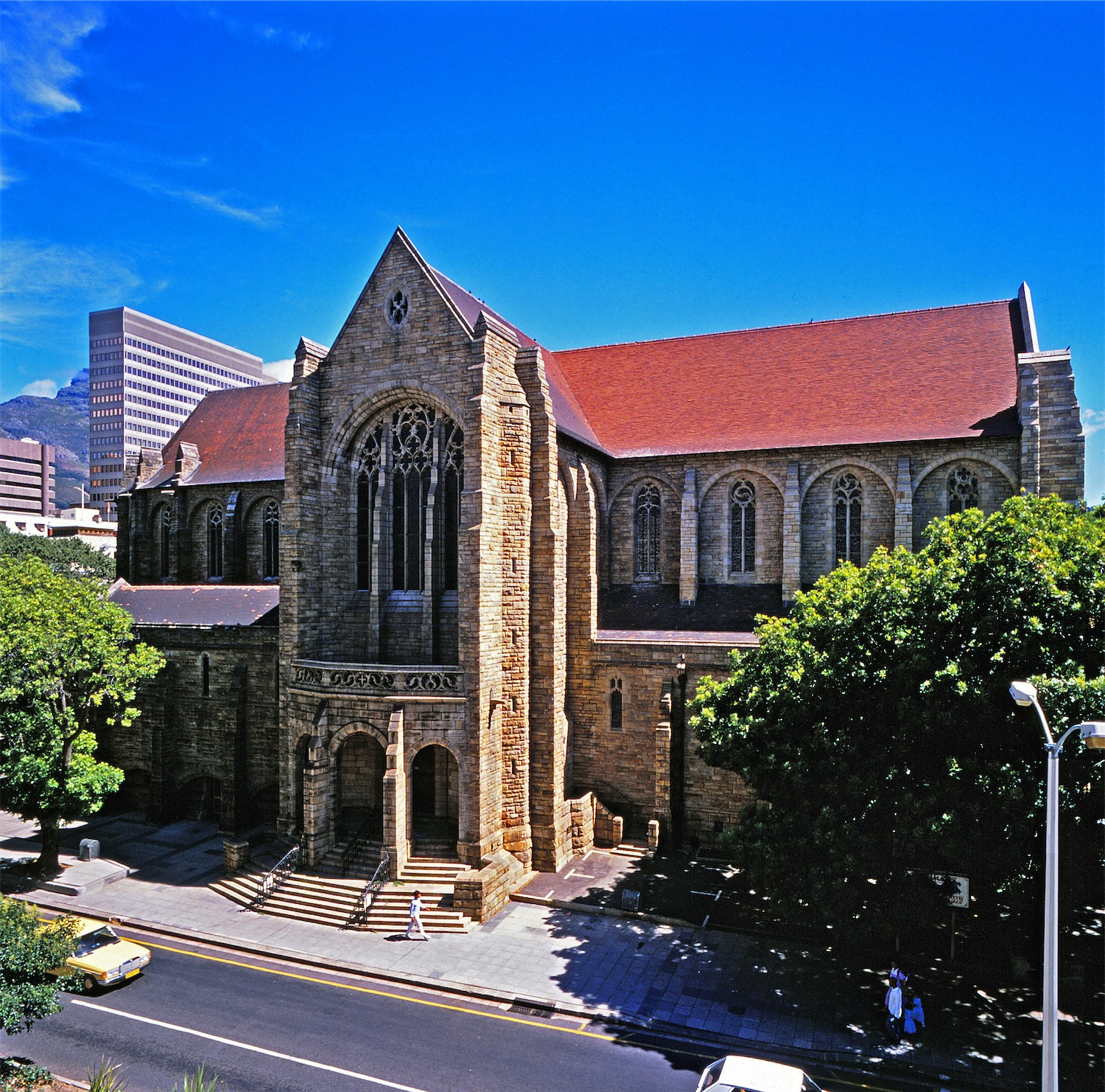 This media shows a South African Protected Site with SAHRA file reference 0000000000.